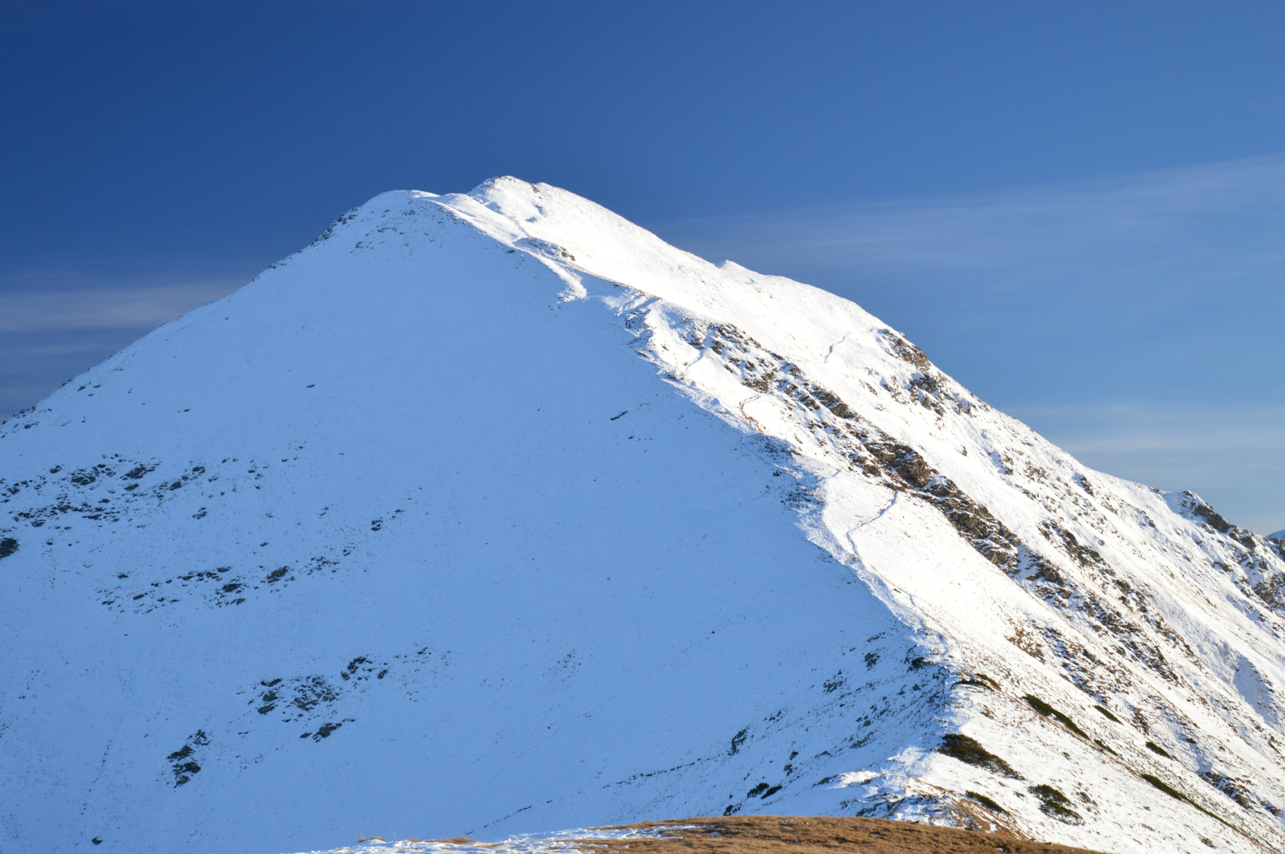 View to Volovec from Rakoň